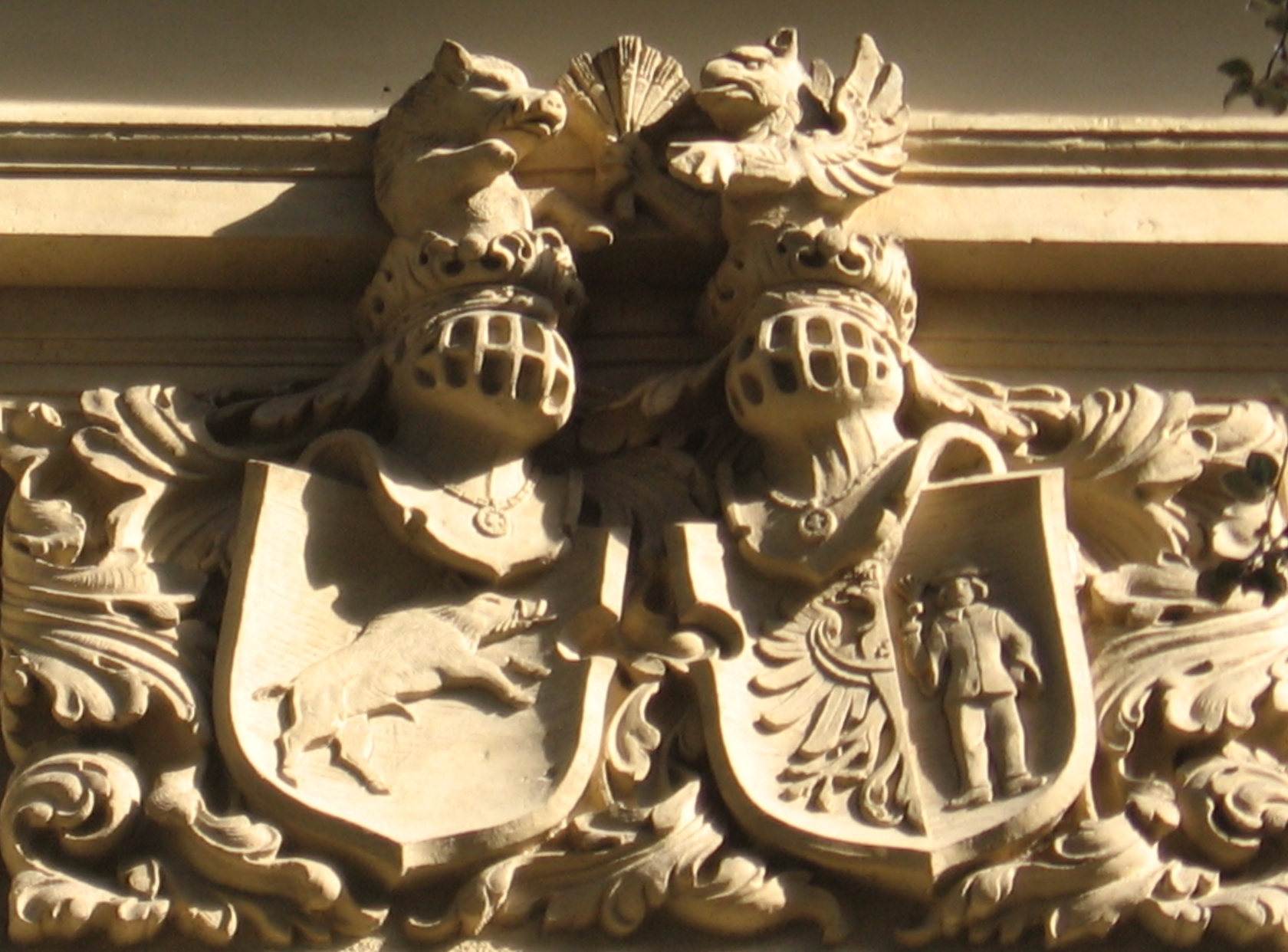 Coats of arms of von Schweinichen (left) and Marie von Korn (right) on their house, built near Marie's parents Heinrich and Helen von Korn mansion-house in Pawłowice (Wrocław, Poland)